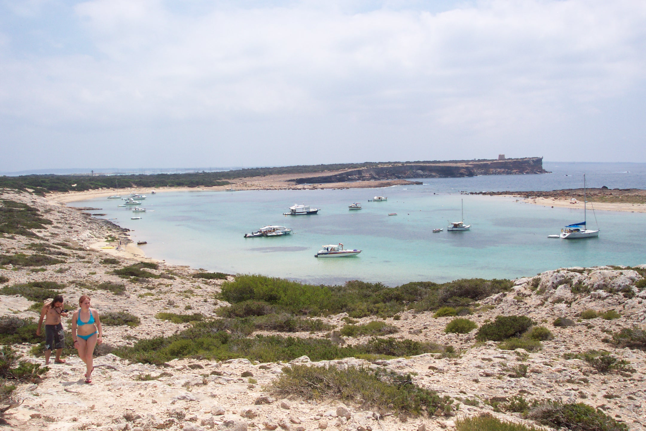 A view of the island of s'Espalmador between Ibiza and Formentera.